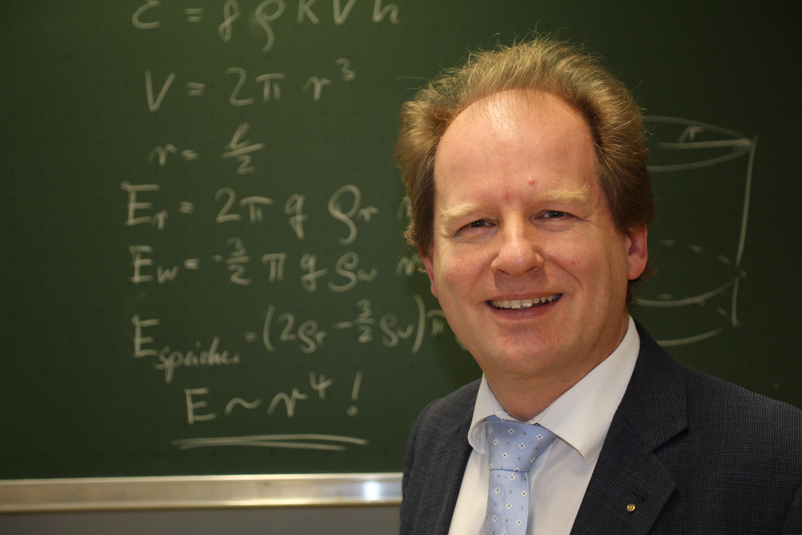 This picture shows Prof. Dr. Eduard Heindl in front of the blackboard.